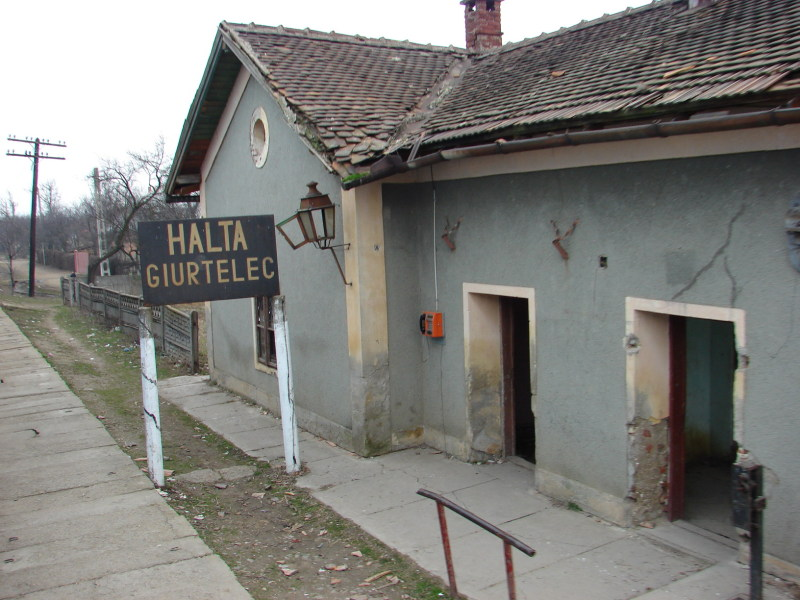 Giurtelecu Şimleului Train Halt/station is a commuter train halt located in Giurtelecu Şimleului, Sălaj County, Romania